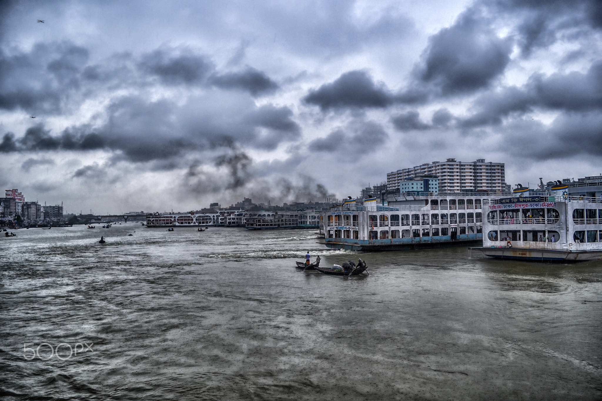 500px provided description: Cloudy Sadarghat, Dhaka, Bangladesh [#sky ,#river ,#clouds ,#cloudy ,#rain ,#cloud ,#rainy ,#bangladesh ,#dhaka ,#buriganga ,#HDR ,#sadarghat ,#burigangariver ,#sadarghat launch terminal]